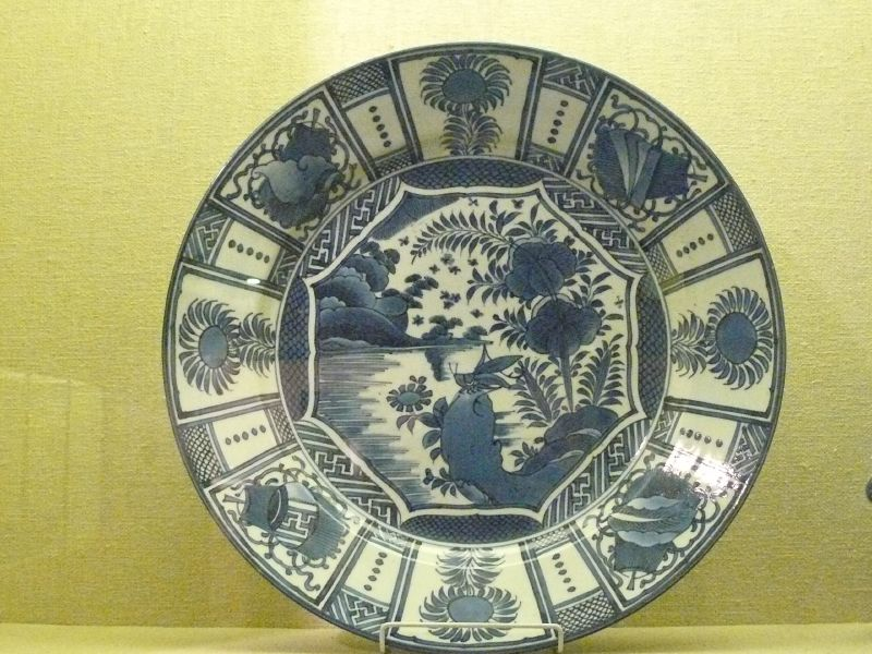 Arita Ware Large Plate in Wan Li Style, ca. 1680. Porcelain with cobalt with cobalt blue, underglaze decoration. Brooklyn Museum, Gift of Dr. Bertram H. Schaffner, 1993.106.10. Wikipedia Loves Art at the Brooklyn Museum This photo of item # [1] at the Brooklyn Museum was contributed under the team name "trish" as part of the Wikipedia Loves Art project in February 2009. Brooklyn Museum The original photograph on Flickr was taken by Trish Mayo—please add a comment to the original Flickr page whenever a use has been made on Wikipedia or another project. Project galleries on Flickr: this institution, this team